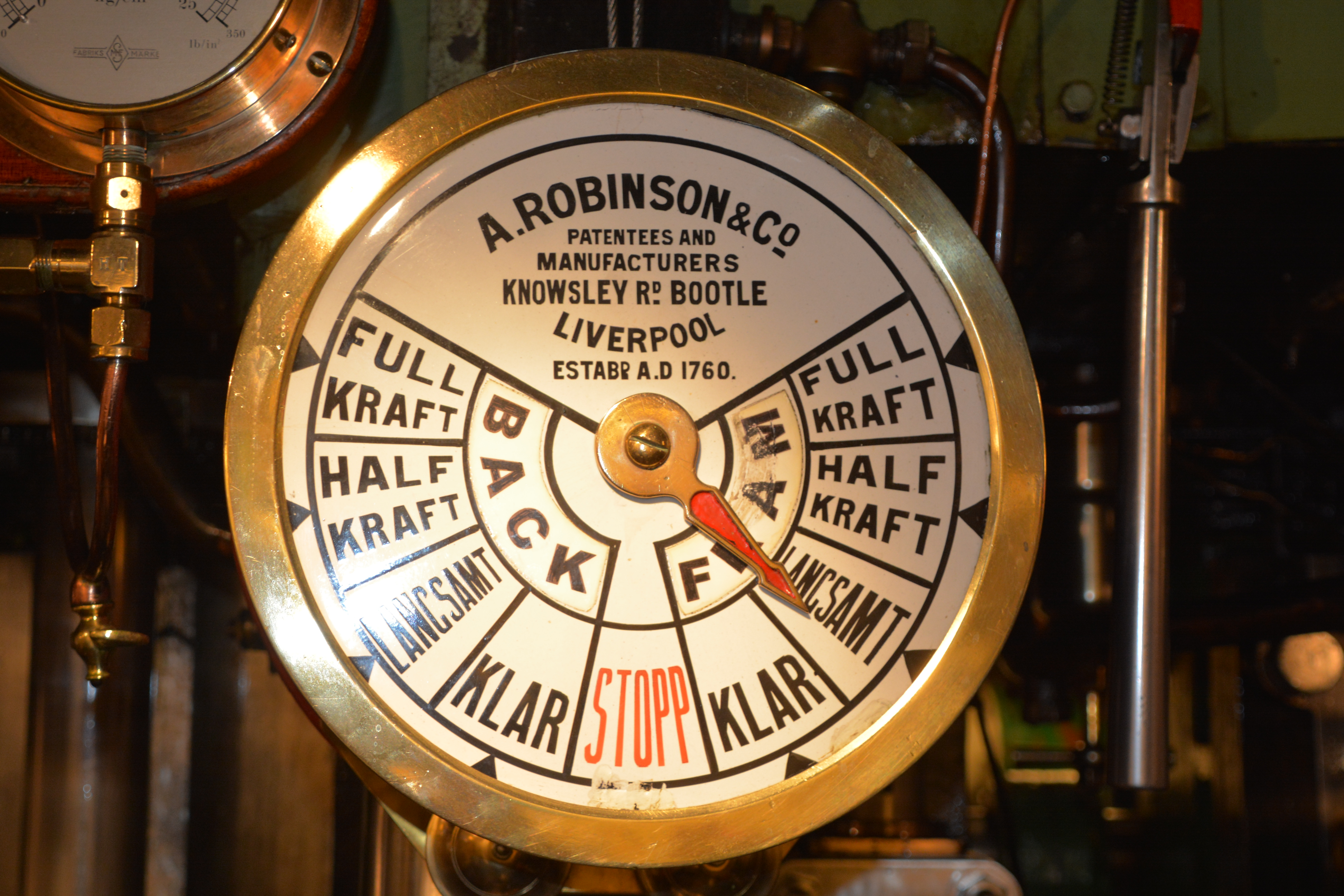 Chadburn in machone room of SS Storskär, Sweden